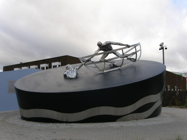 New memorial sculpture opposite the RNLI Headquarters in Poole, Dorset